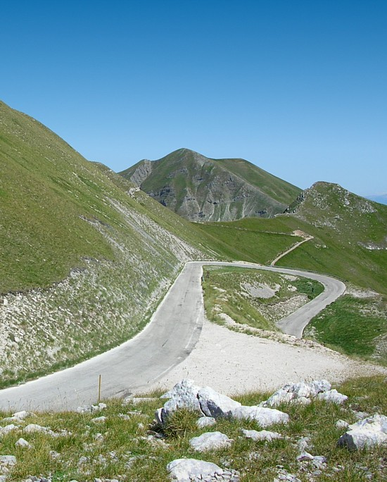 Top of the Sella di Leonessa picture taken by user Idéfix July 2006